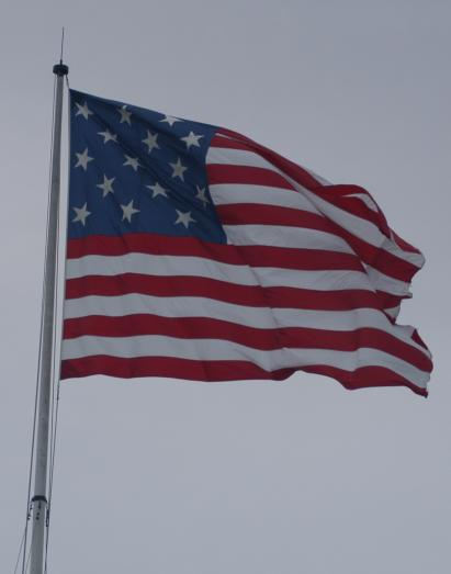 Picture of the flag flying at Ft. McHenry. Taken by me and released under the GNU FDL